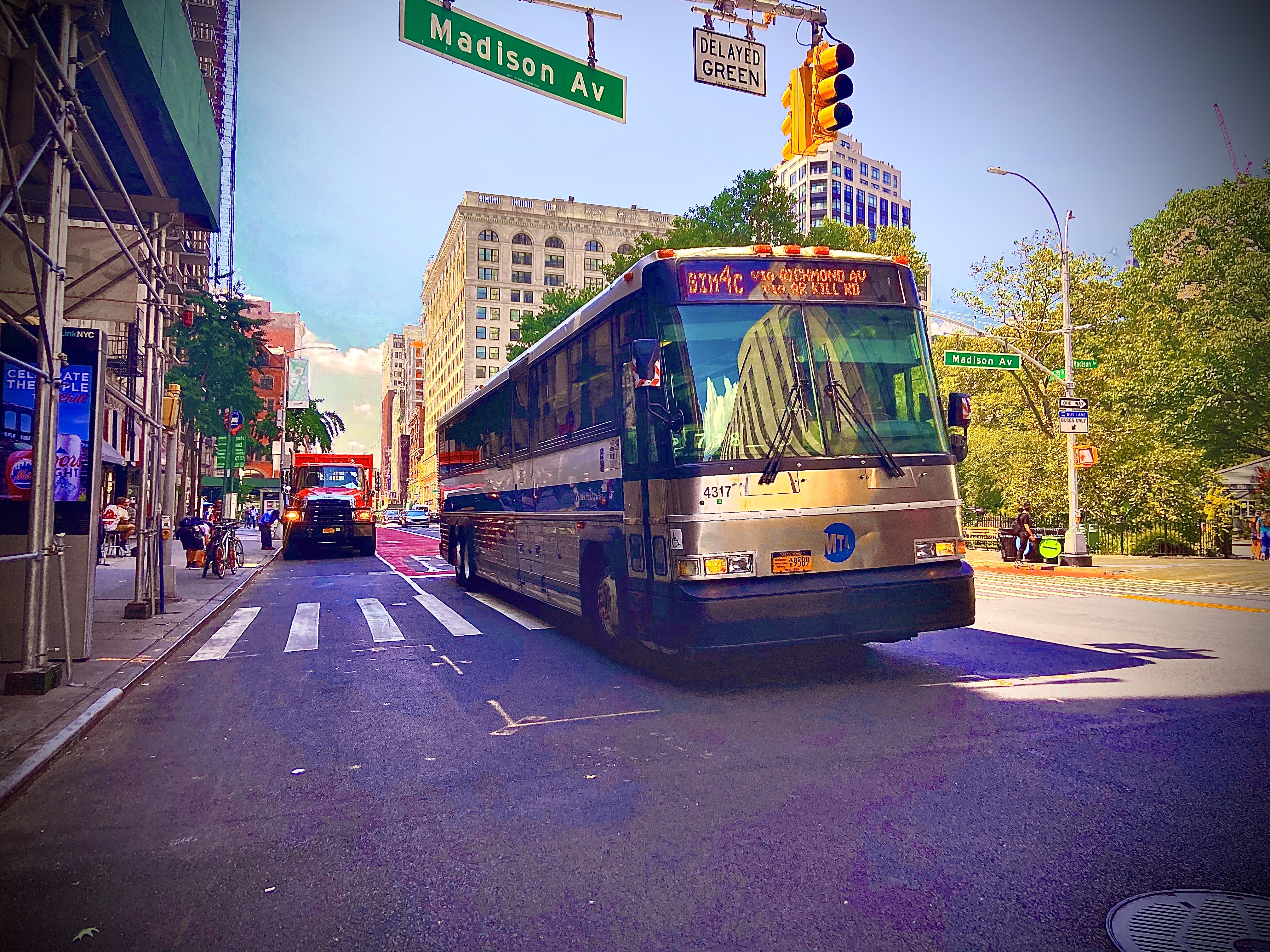 2007 Motor Coach Industries D4500CL #4317 on the SIM4C to Woodrow at E 23 St & Madison Av.